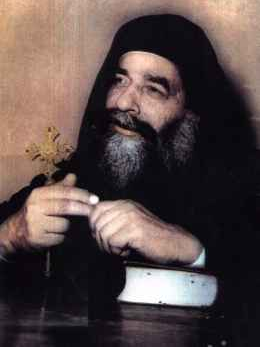 St. Pope Cyril VI, Pope Kyrillos VI